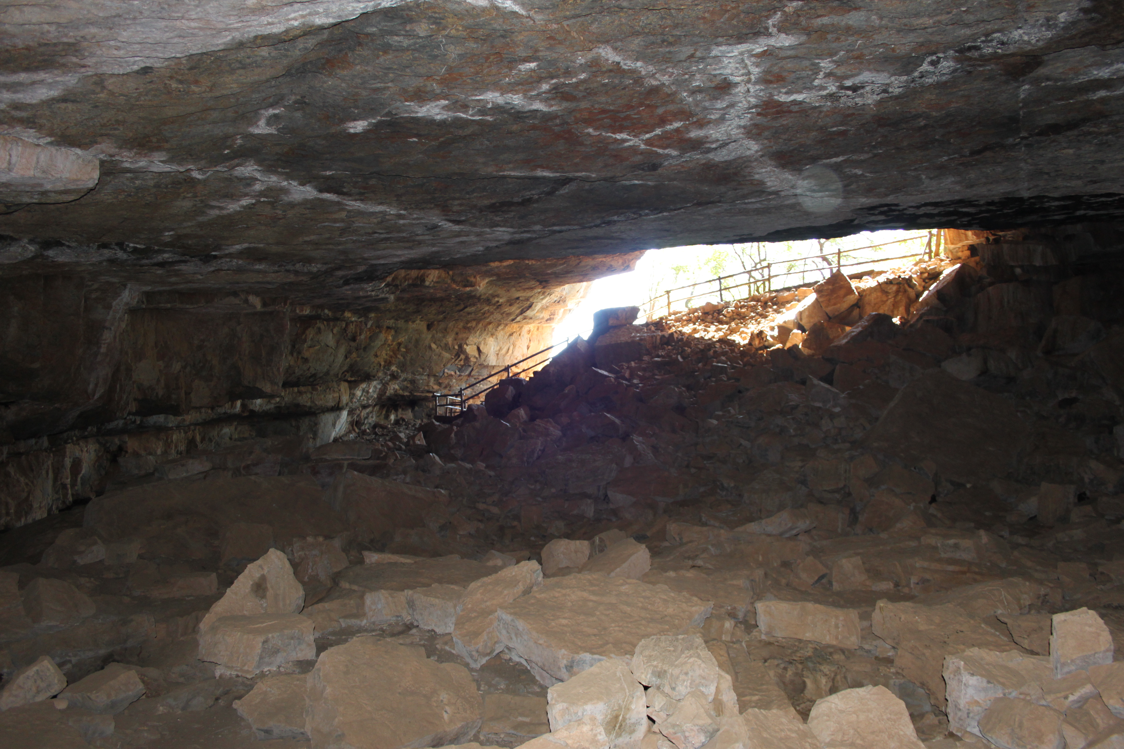 Potgietersrus, South Africa